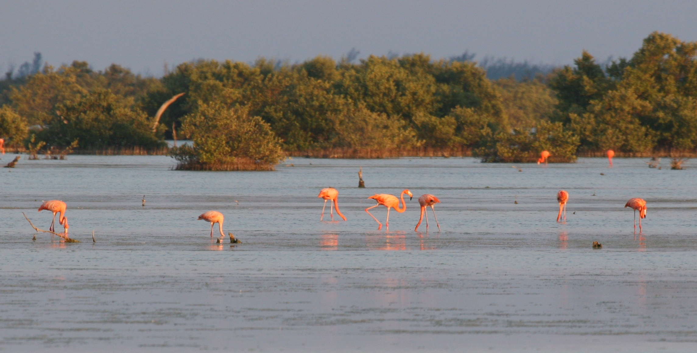 American Flamingo (Phoenicopterus ruber)